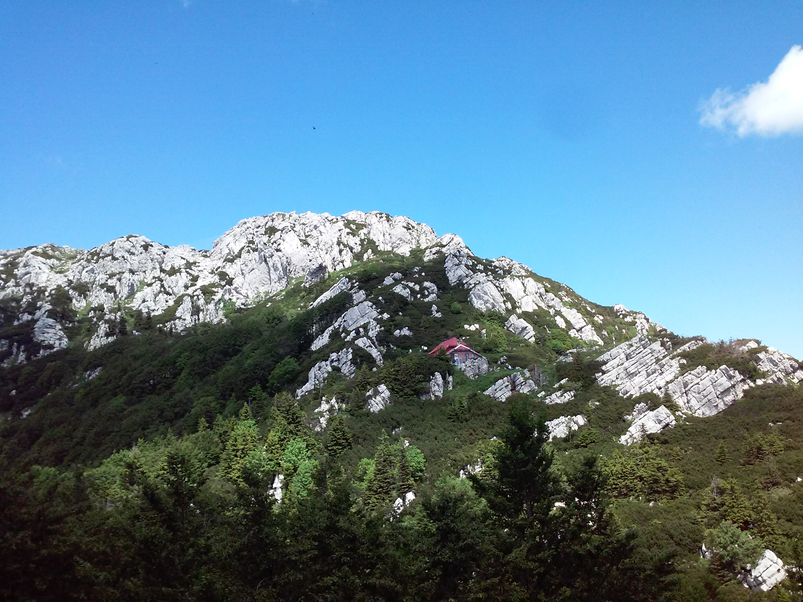 Summit Risnjak